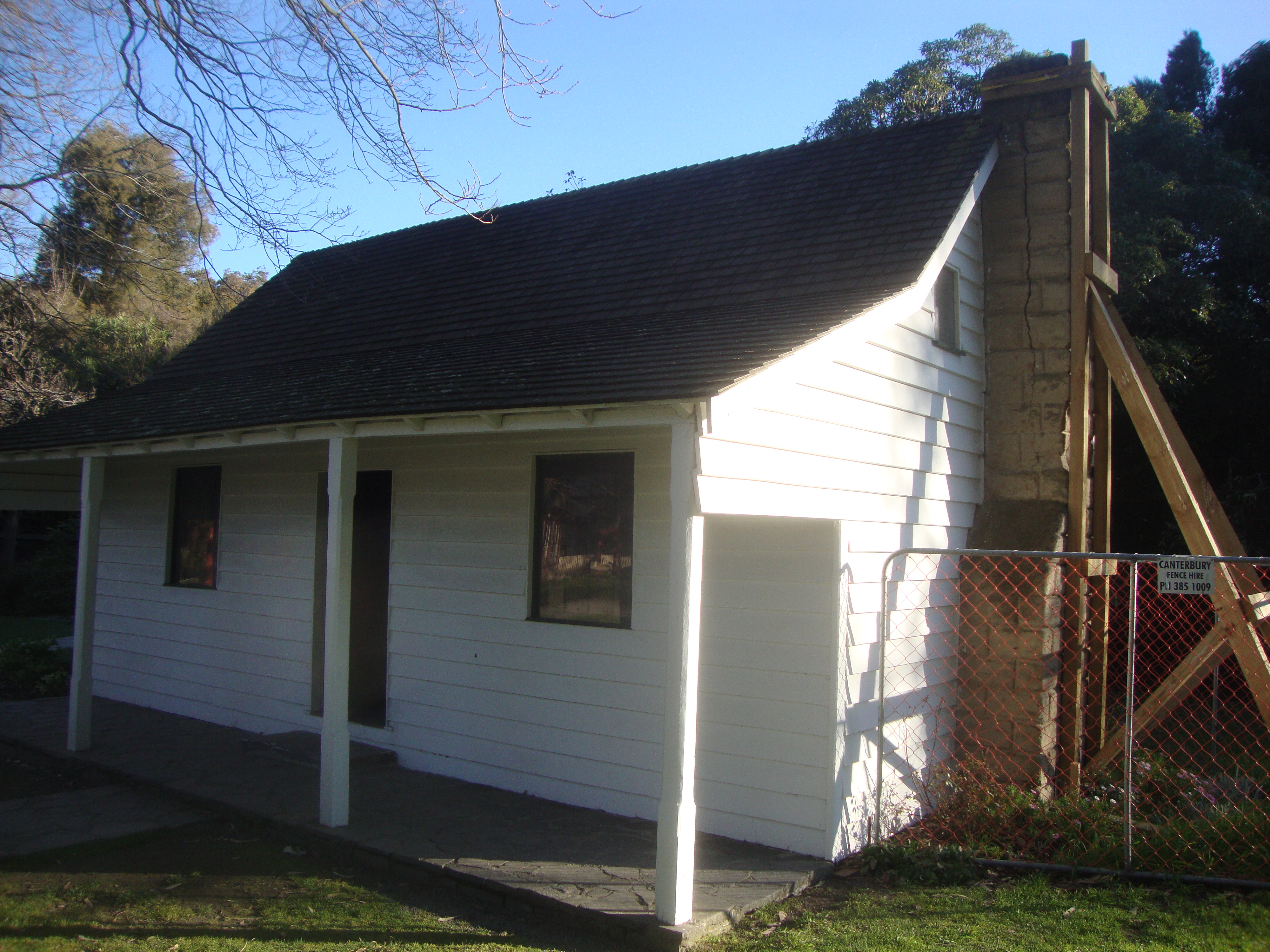 Deans Cottage.